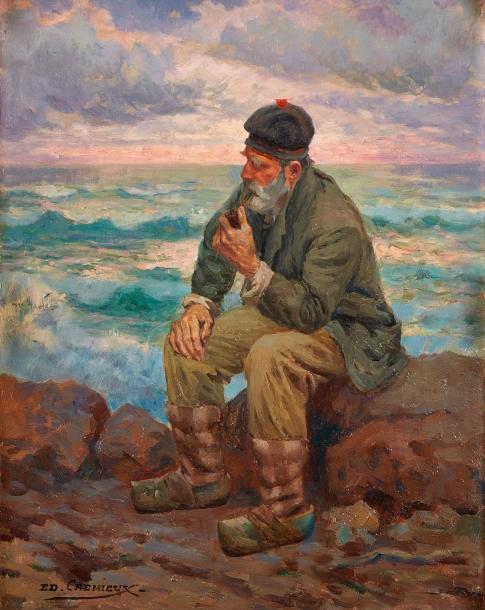 Sailor